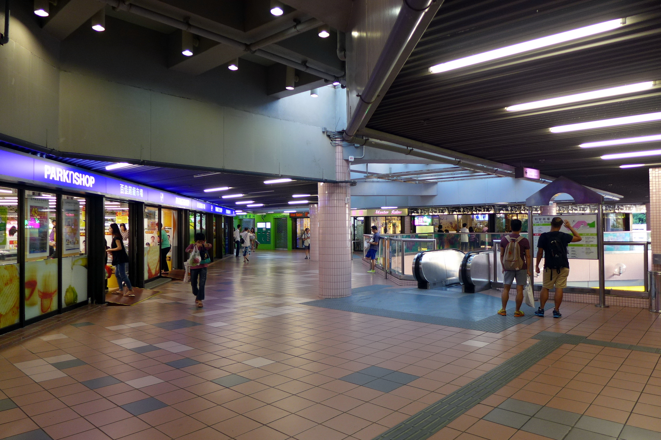 Lee On Shopping Centre Interior